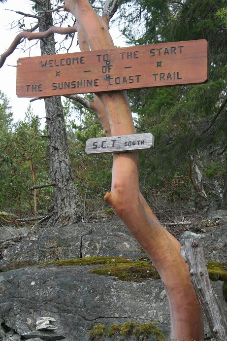 This is a picture of the the begining of the Sunshine Coast Trail at Sarah Point, British Columbia, Canada. It was taken March 26th 2007.